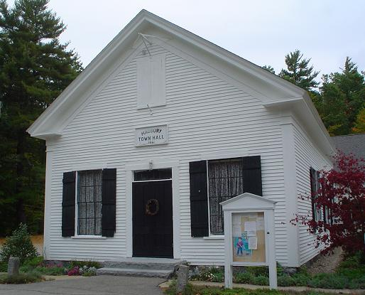 Town Hall, Madbury, New Hampshire. It was built in 1861.